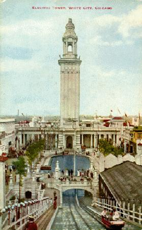 White City (Chicago) Electric Tower (ca. 1908) Asserted to be in public domain - postcard at least 100 years old.